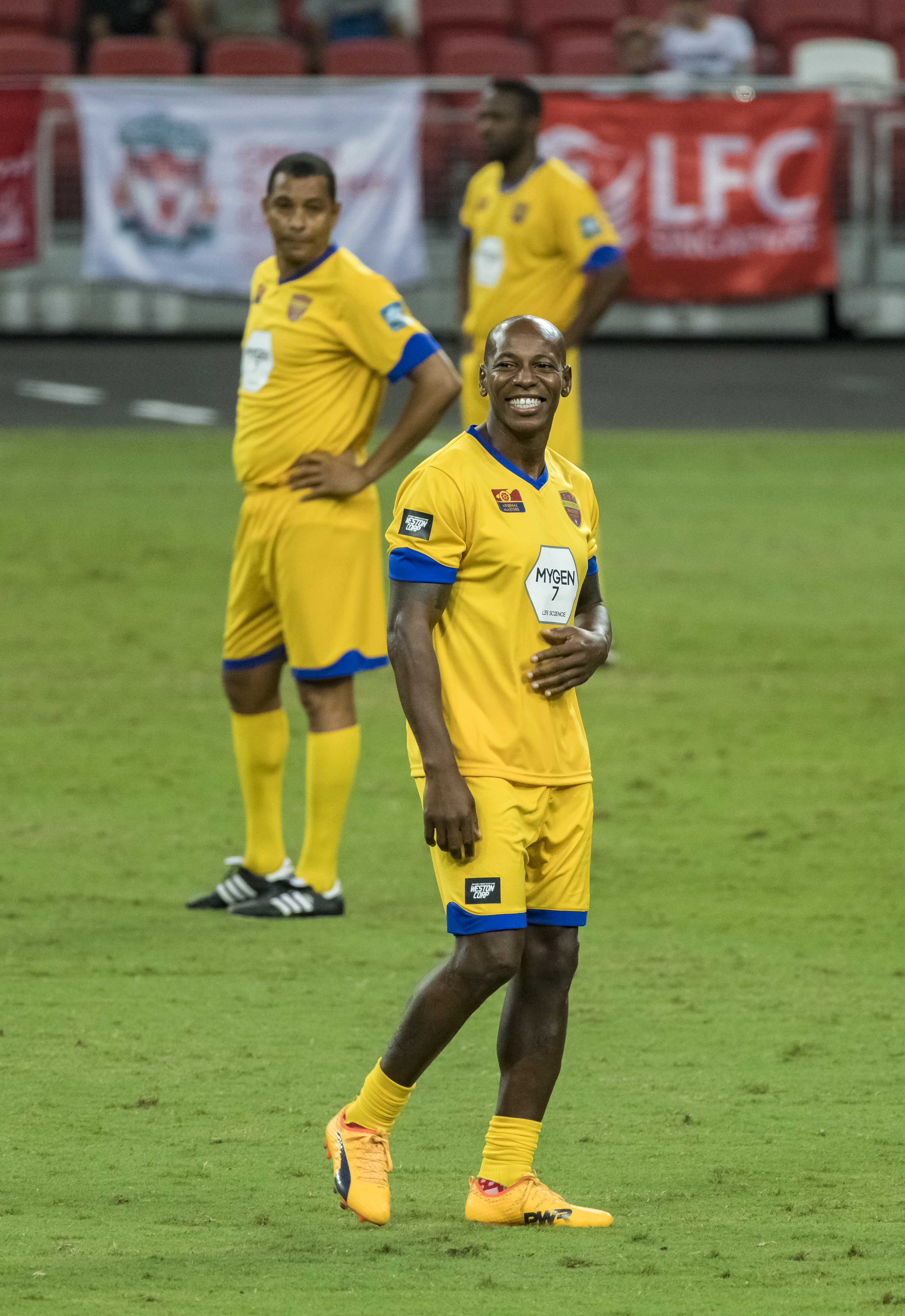 Luís Boa Morte arsenal masters singapore national stadium 2017